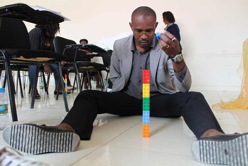 The picture was taken during a playful workshop held in Benguela province, Angola. This is an image with the theme "Play" from: Angola